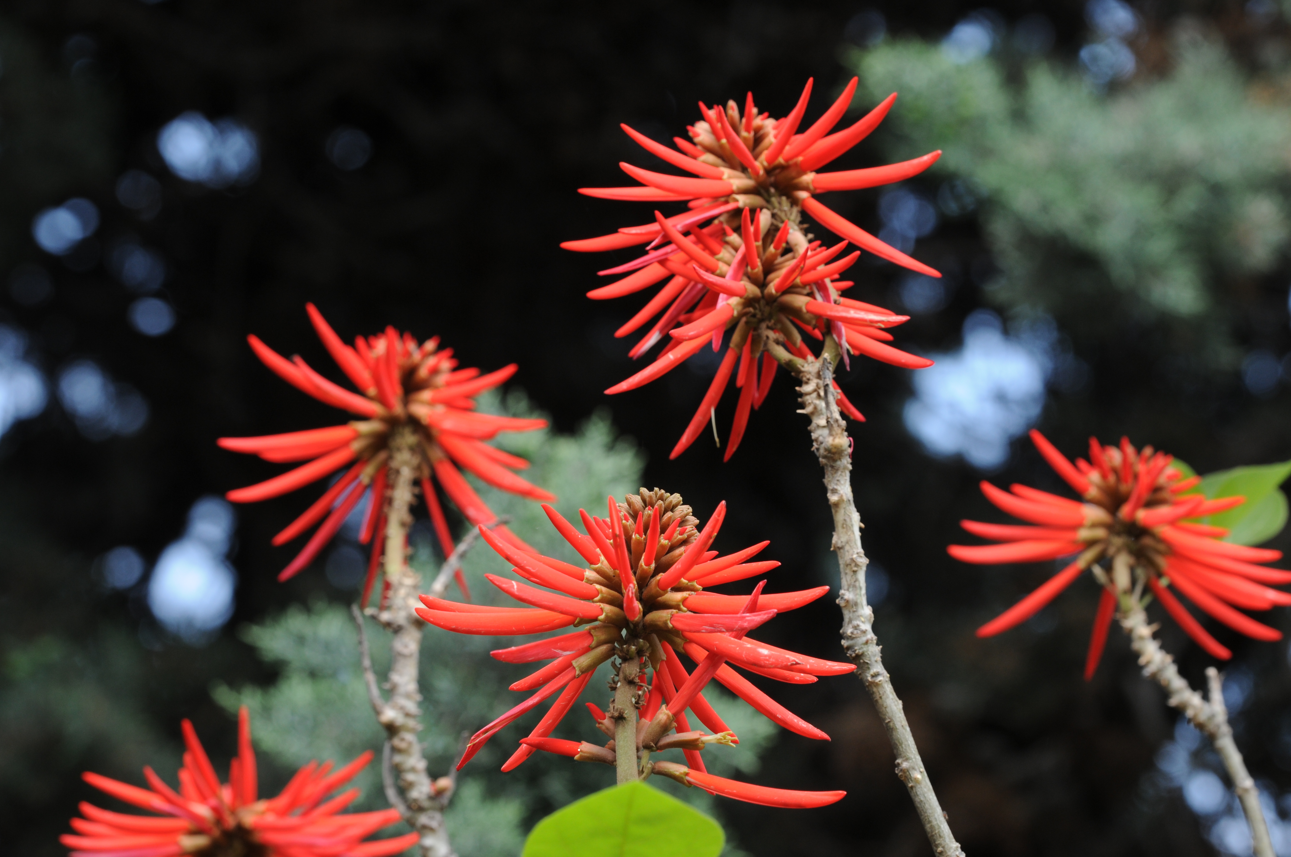 Flowers of Flame Coral Tree or Naked Coral Tree (Erythrina coralloides) originating from Mexico. Die Flora und der Botanische Garten Köln. Cologne, Germany.